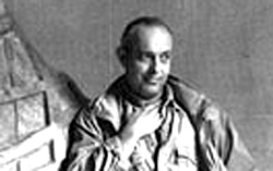 Andrey Lekarski and his monumental sculpture "Le Pied d'[Apollon_du_Belvédère]"